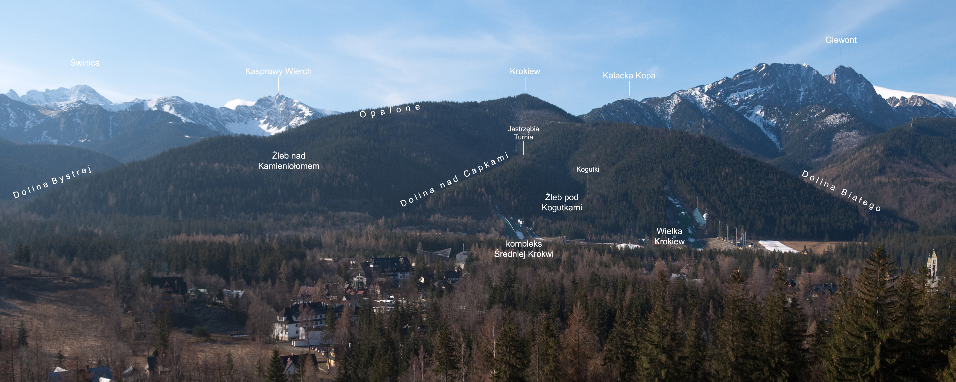 Krokiew (1378 m) – view from Antałówka (937 m) in Zakopane (with captions).